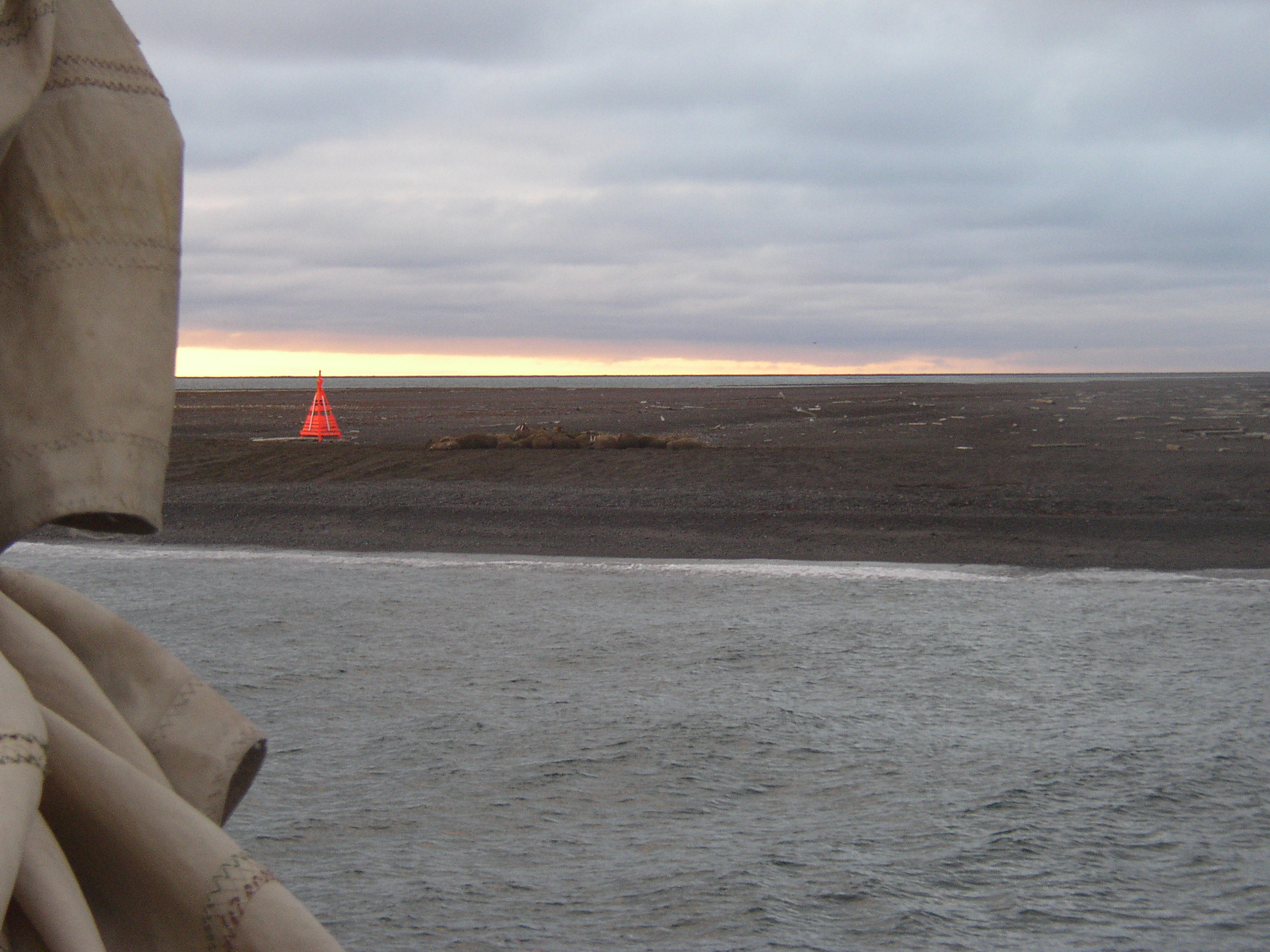 Walruses on Moffen, Spitsbergen (Svalbard).